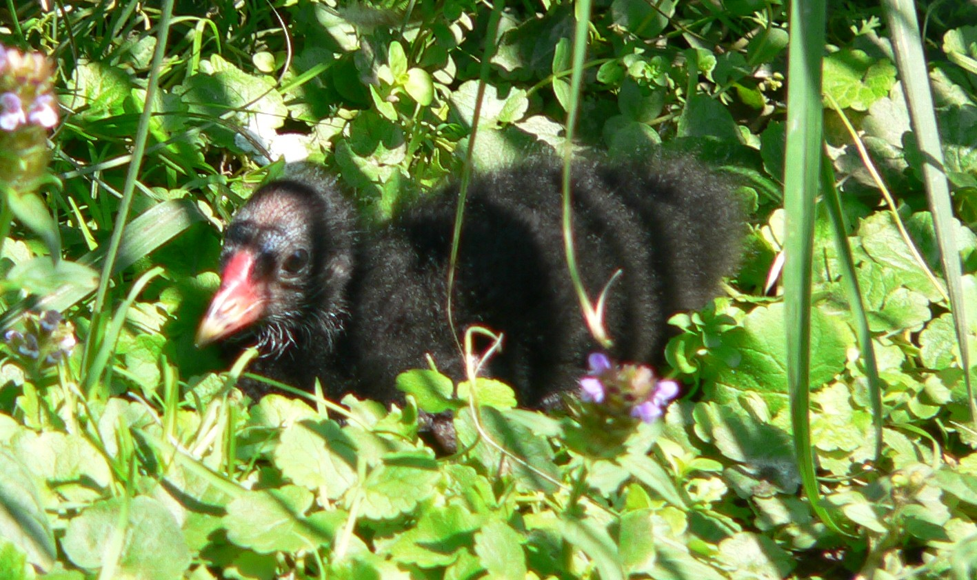 Jul 2005 Photo taken by user Benutzer:BS Thurner Hof young chick of Gallinula sp. (G. chloropus or G. galeata; not identifiable without location data)